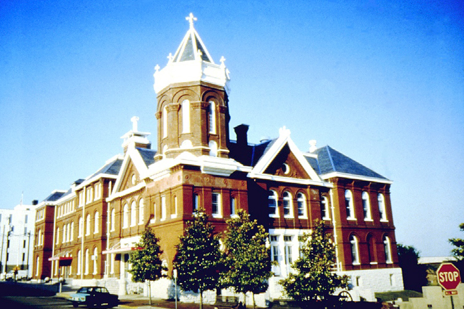 The historic Mississippi River Commission (MRC) Building in downtown Vicksburg, Mississippi, USA. This building was constructed in 1894 and is listed in the U.S. list of historic federal buildings. The building is located at 1400 Walnut Street in the Uptown Vicksburg Historic District.